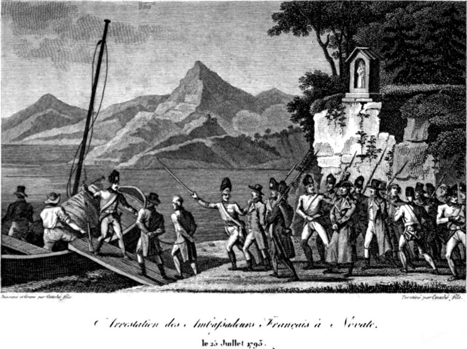 The Arrest of French Ambassadors Maret & Sémonville on July 25, 1793 at Novate Mezzola.